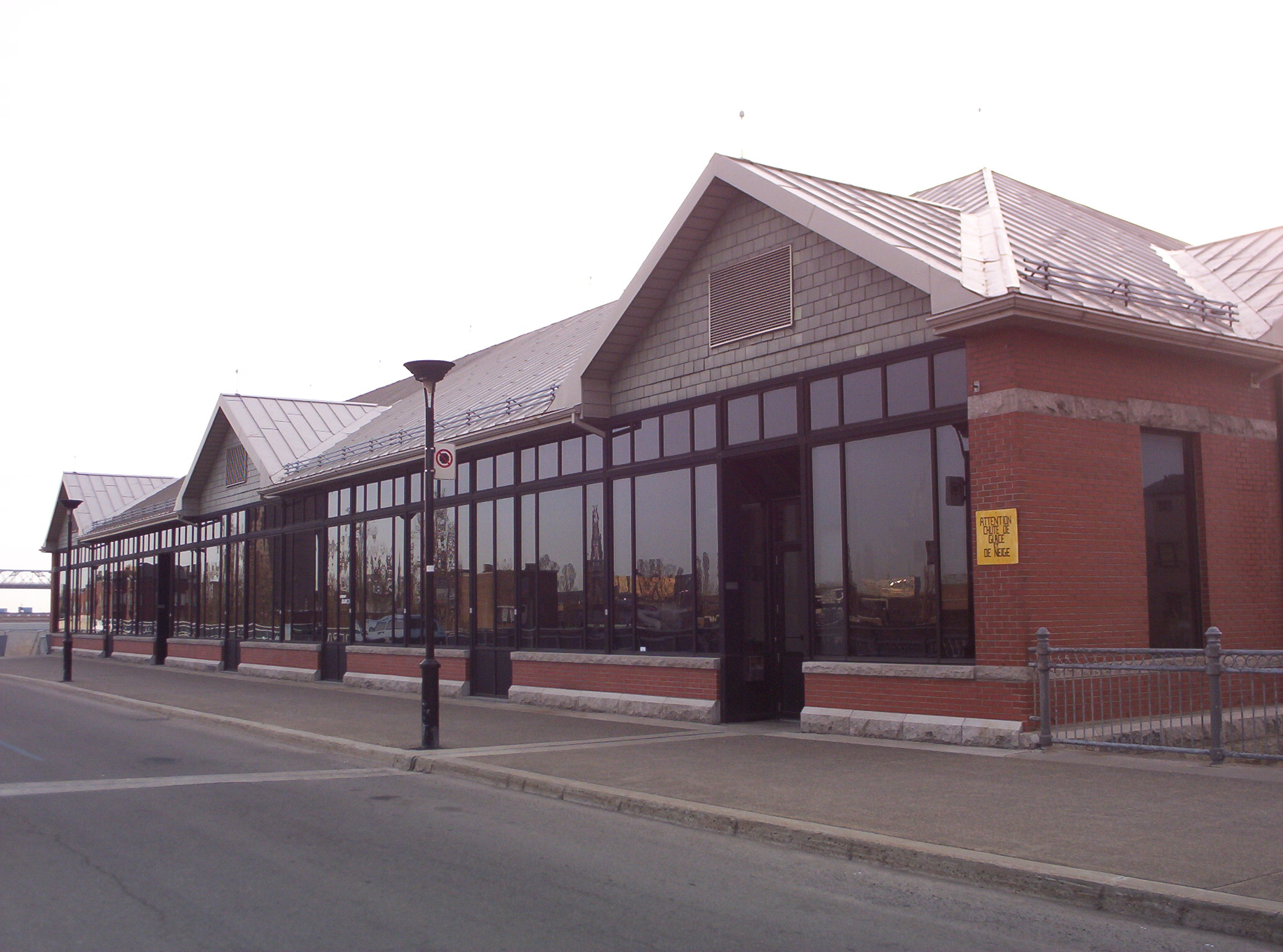 Dalhousie train station in Montreal, Quebec